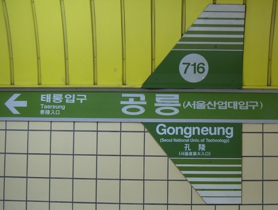 Gongneung Station